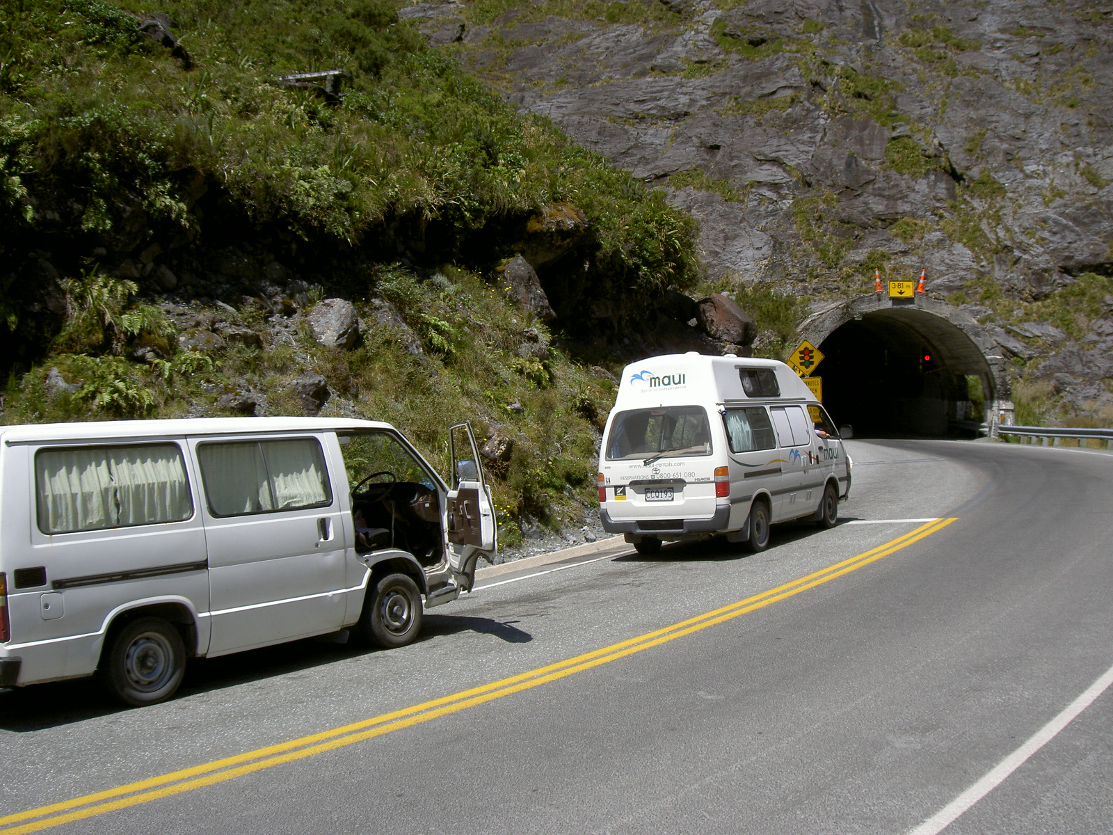 Homer Tunnel, in Fiordland National Park, New Zealand.